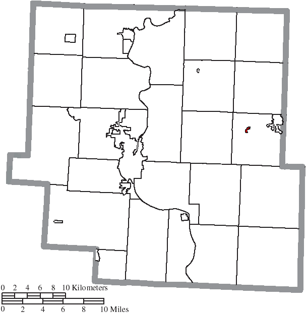 Map of the municipal and township boundaries of Muskingum County, Ohio, United States, as of the 2000 census, with the location of the village of Norwich highlighted. Township borders are shown only in unincorporated areas in order to differentiate incorporated and unincorporated areas more clearly.